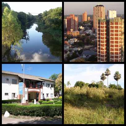 Montage of images from Chaco Province, Argentina